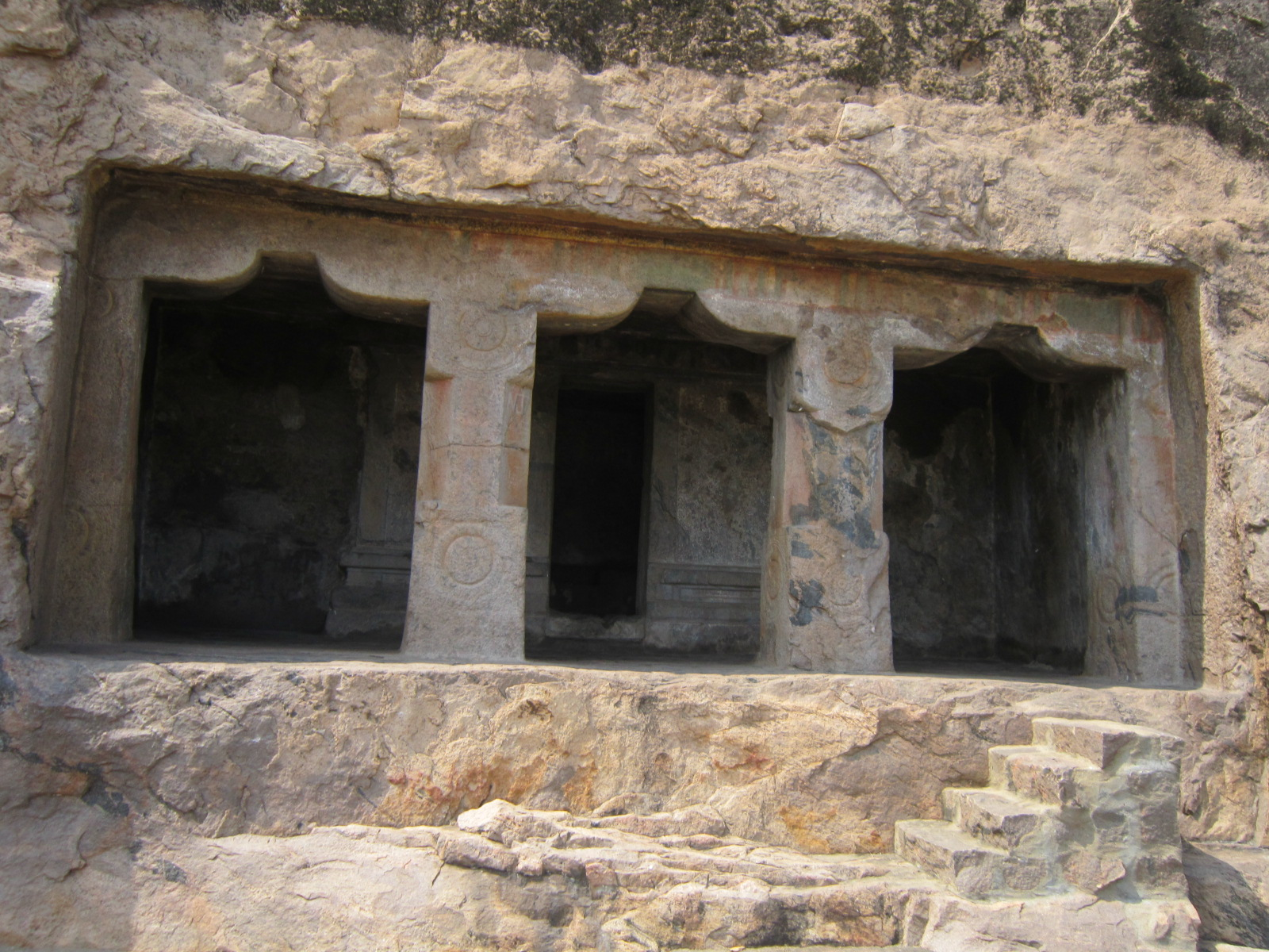 Rock cut caves Mamandur,Thiruvannamalai Closer look at one of the caves